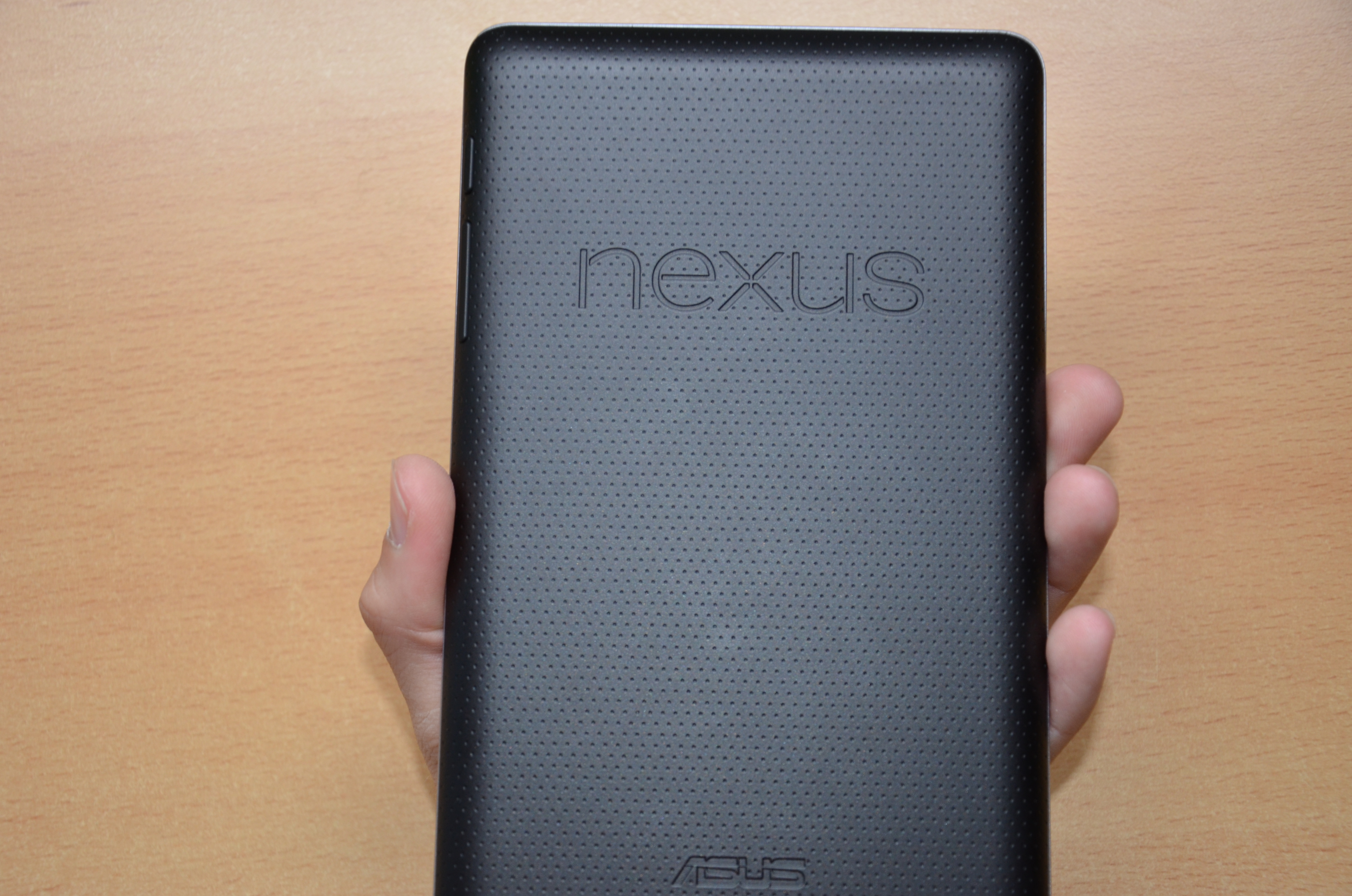 The back of the Nexus 7.